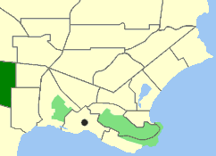 Map of the suburb of Gledhow in Albany, Western Australia.